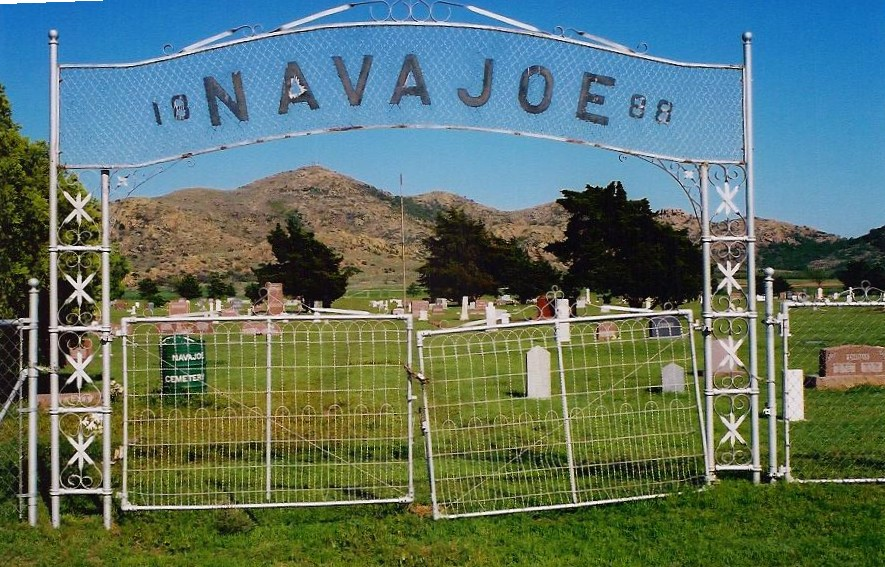 Picture of front gate of Navajoe Cemetery